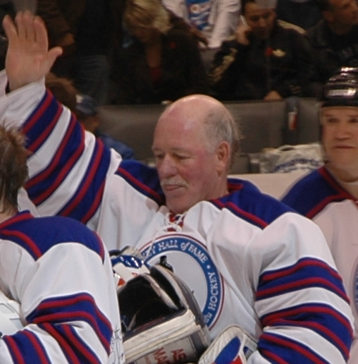 Billy Smith played with the All-Star Legends 2008 in Toronto